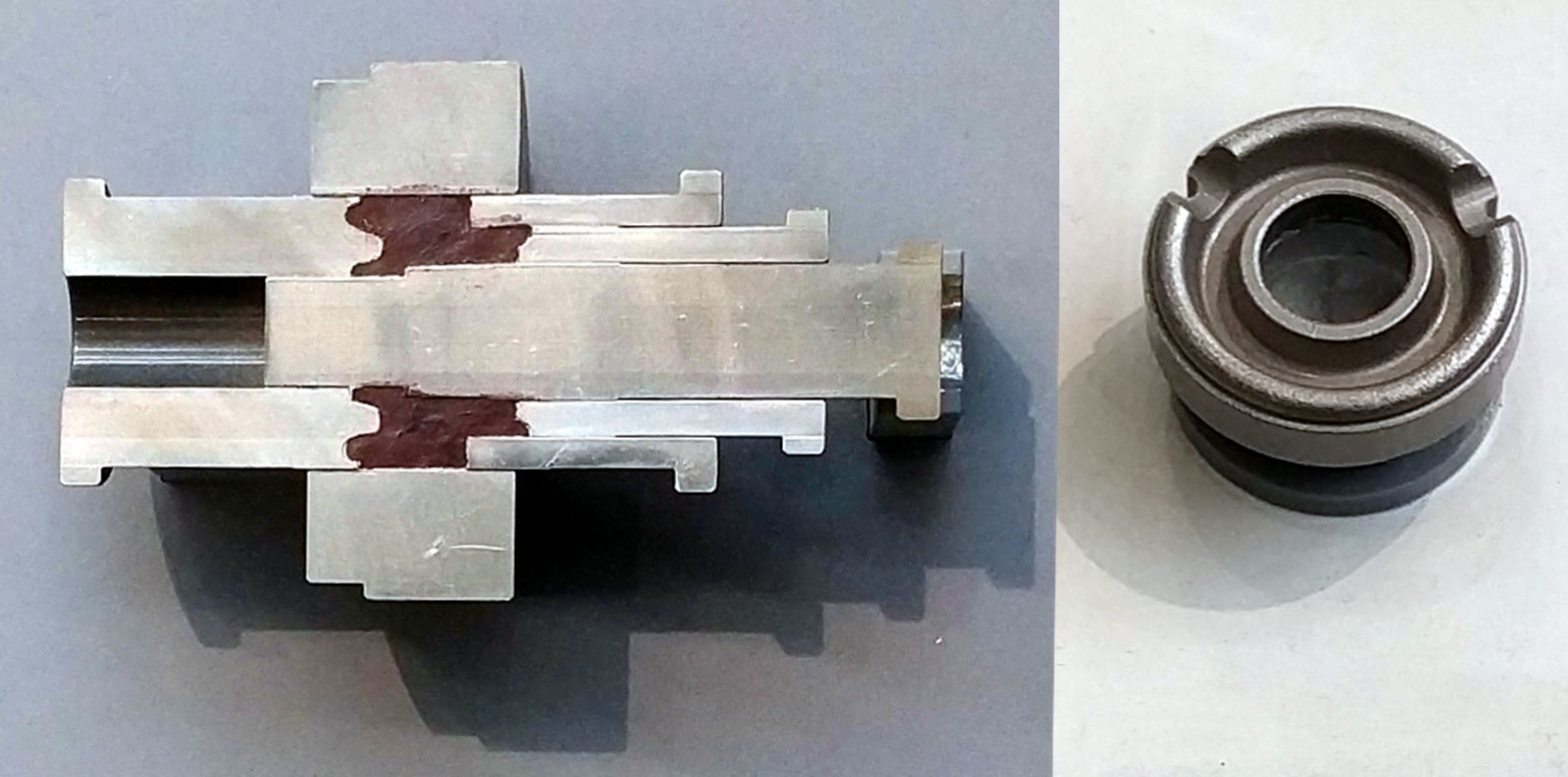 Cross section of a sintering tool and the part. Image taken in the Toyota Commemorative Museum of Industry and Technology, Nagoya, Japan.